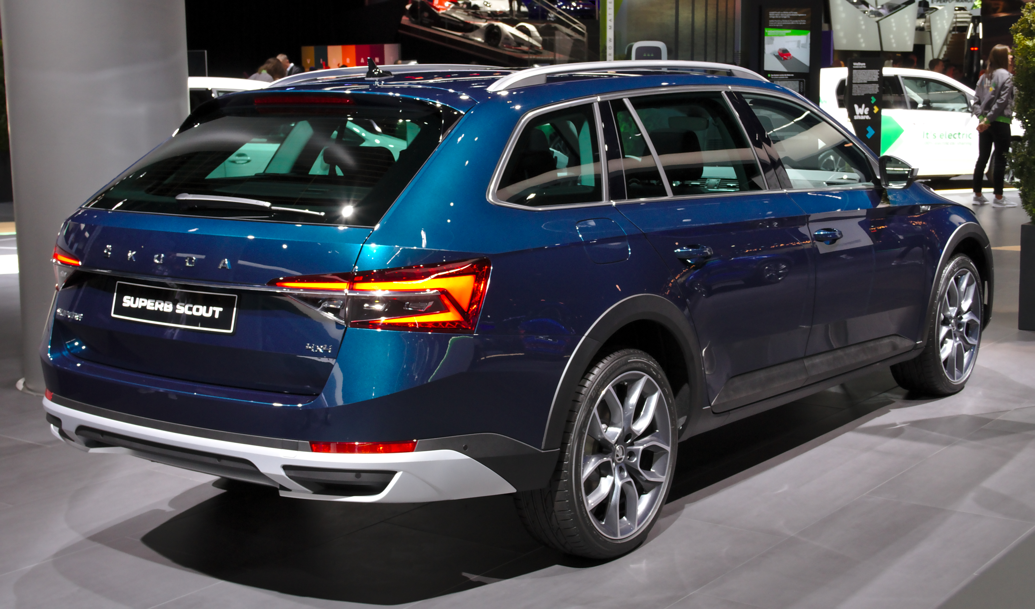 Škoda_Superb_III_Combi_Scout at IAA 2019